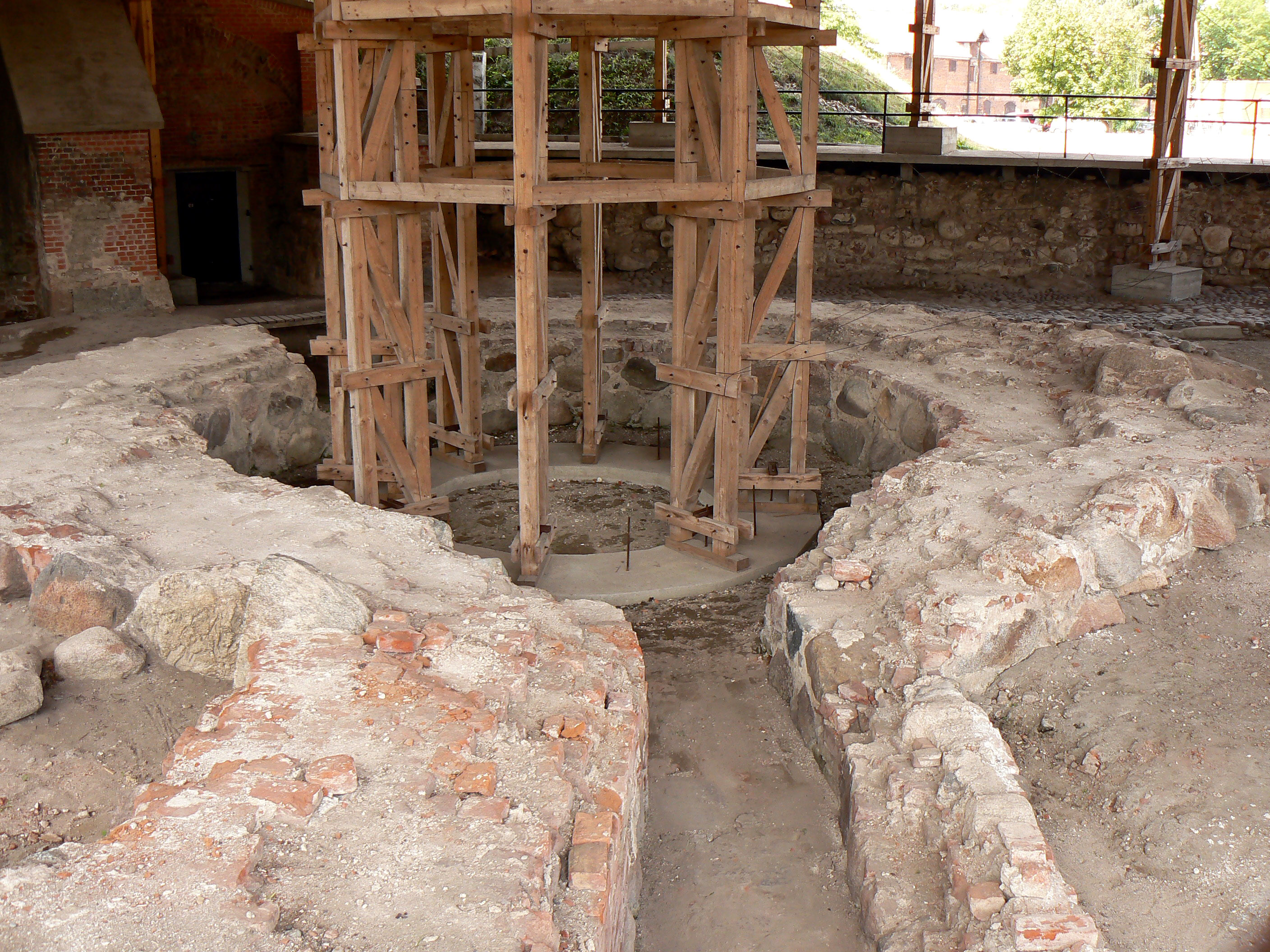 The Big gunpowder tower of Klaipėda castle.